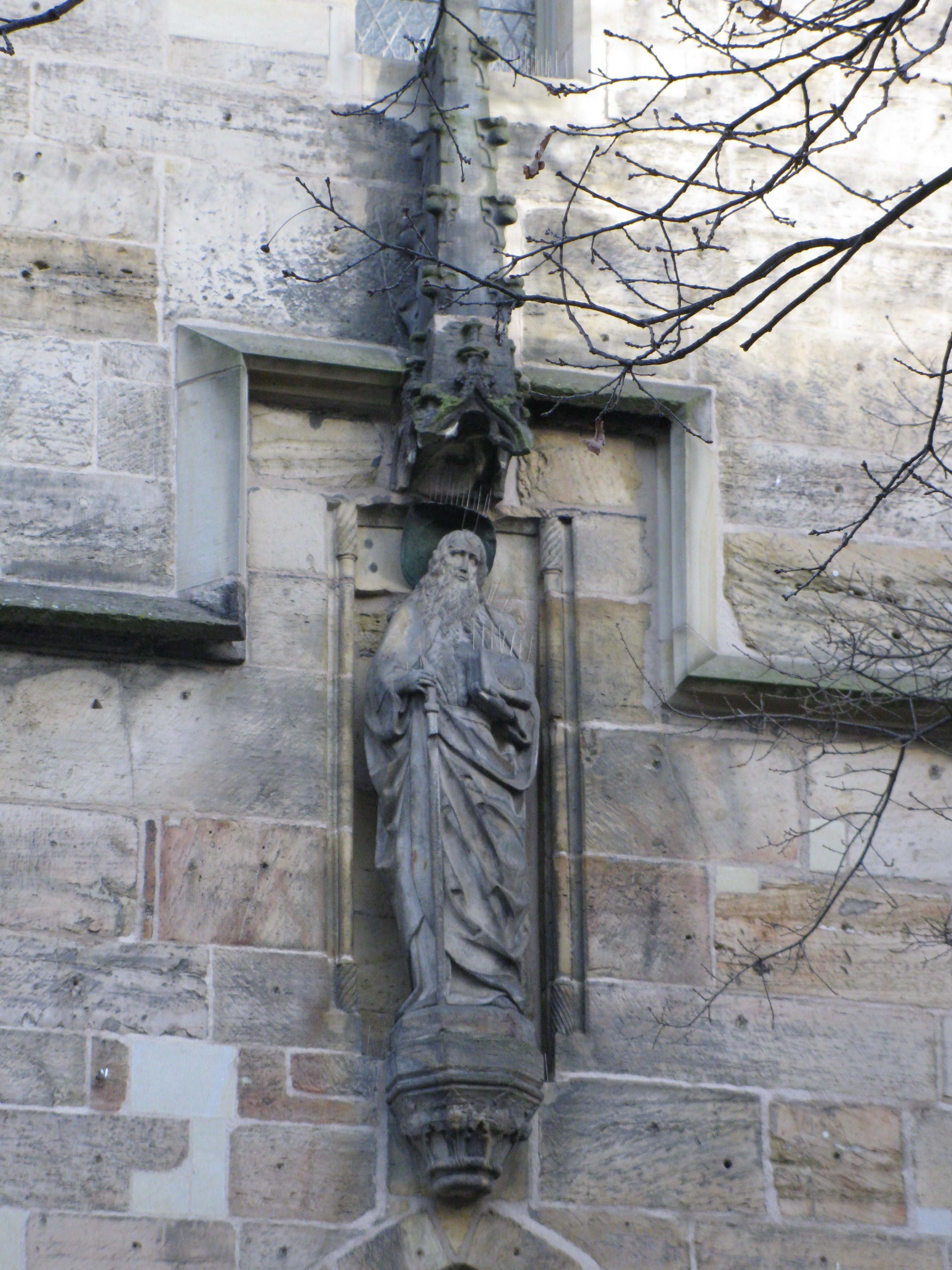 Statue of Saint Jakobus at Saint Jakobi Church, Hildesheim